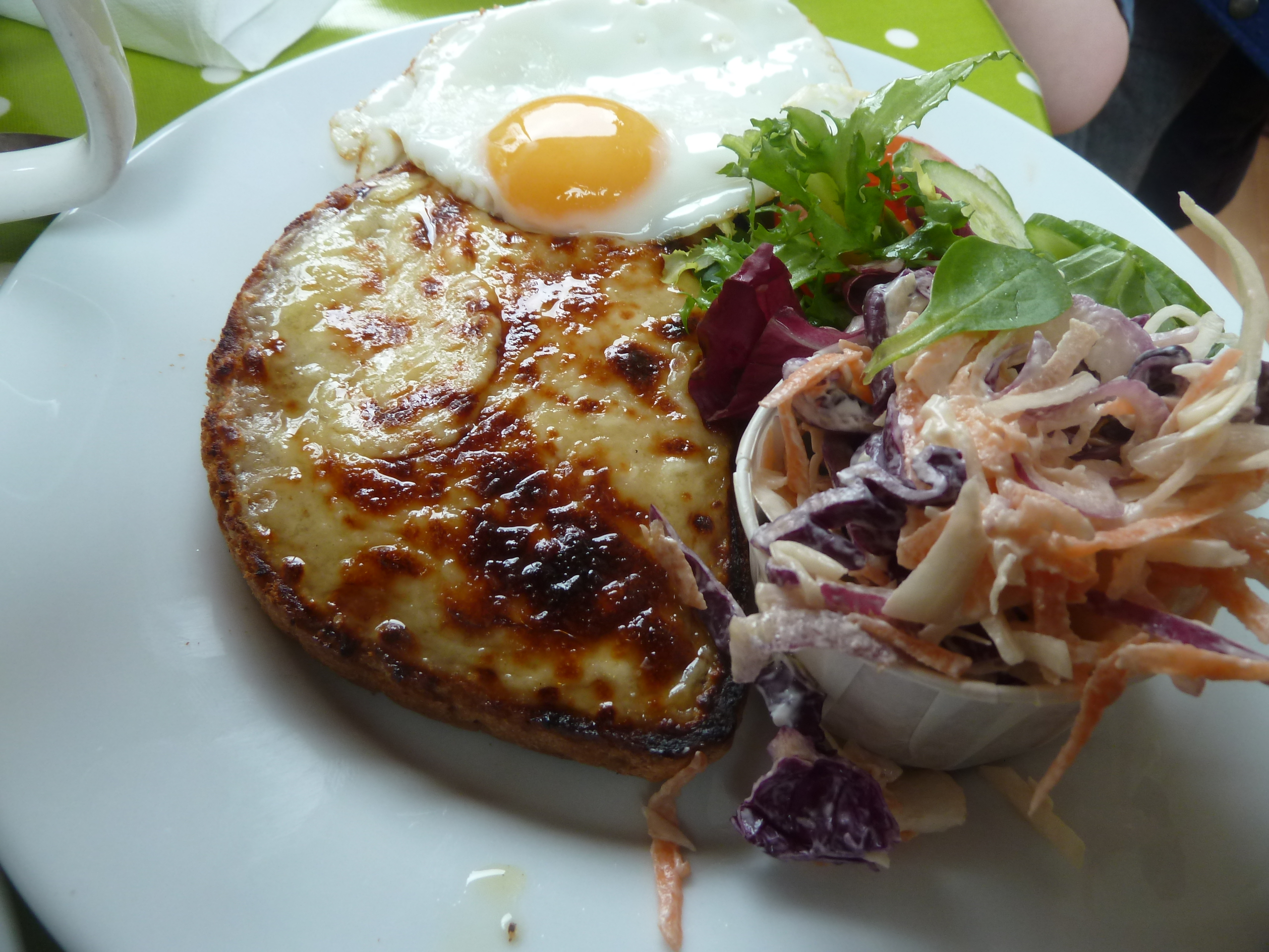 Welsh rarebit, with a fried egg, salad and coleslaw